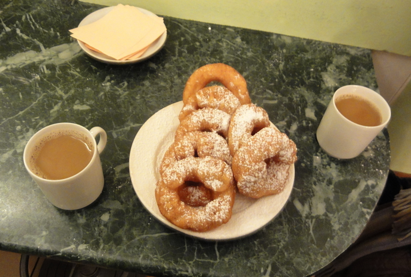 7 muffins and 2 coffee - the standard of student time:)